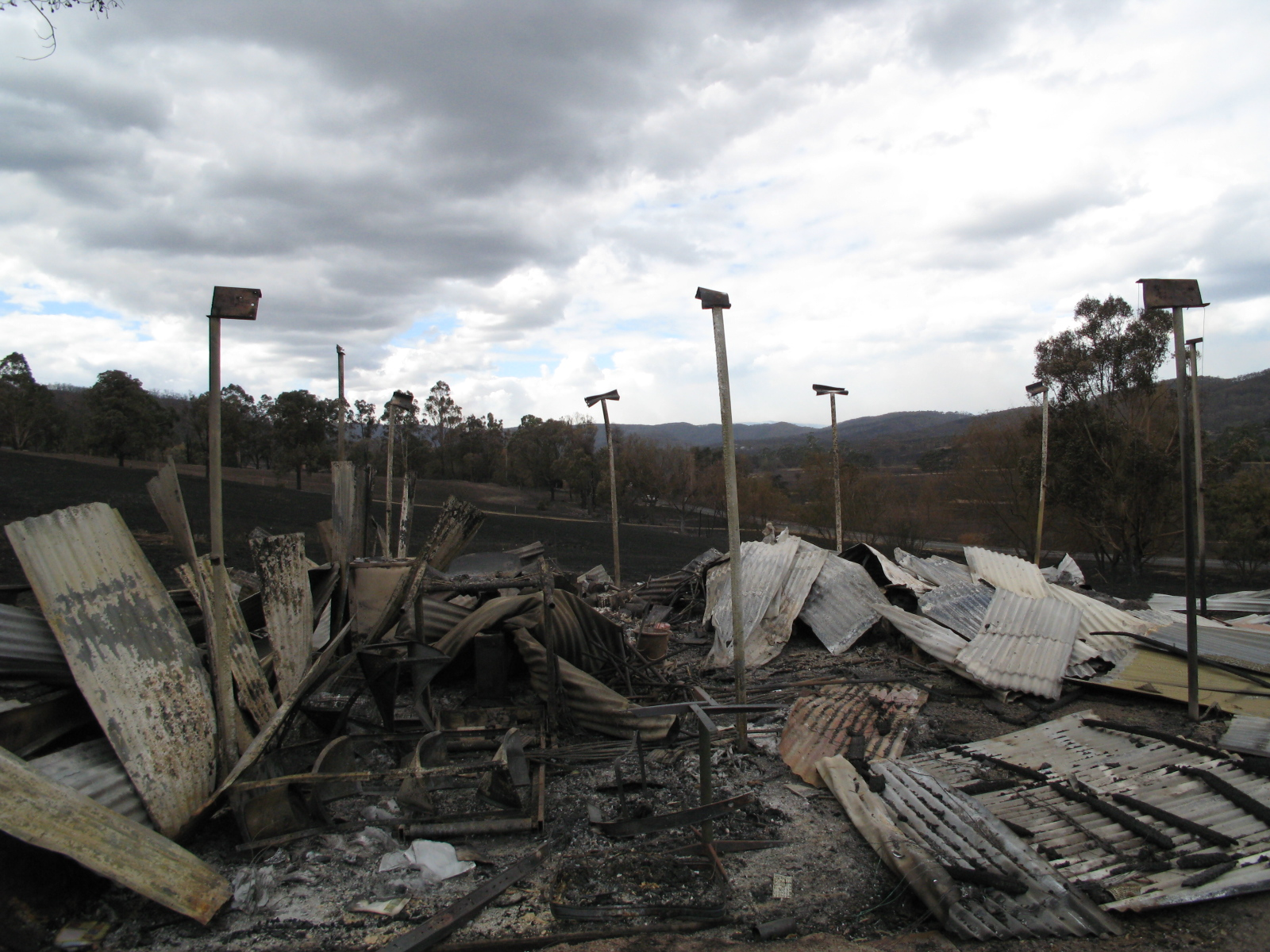 A house damaged by bushfires in the Kinglake complex, in Steels Creek. Photo taken by myself with verbal permission of the owners, 10th of February, 2009.